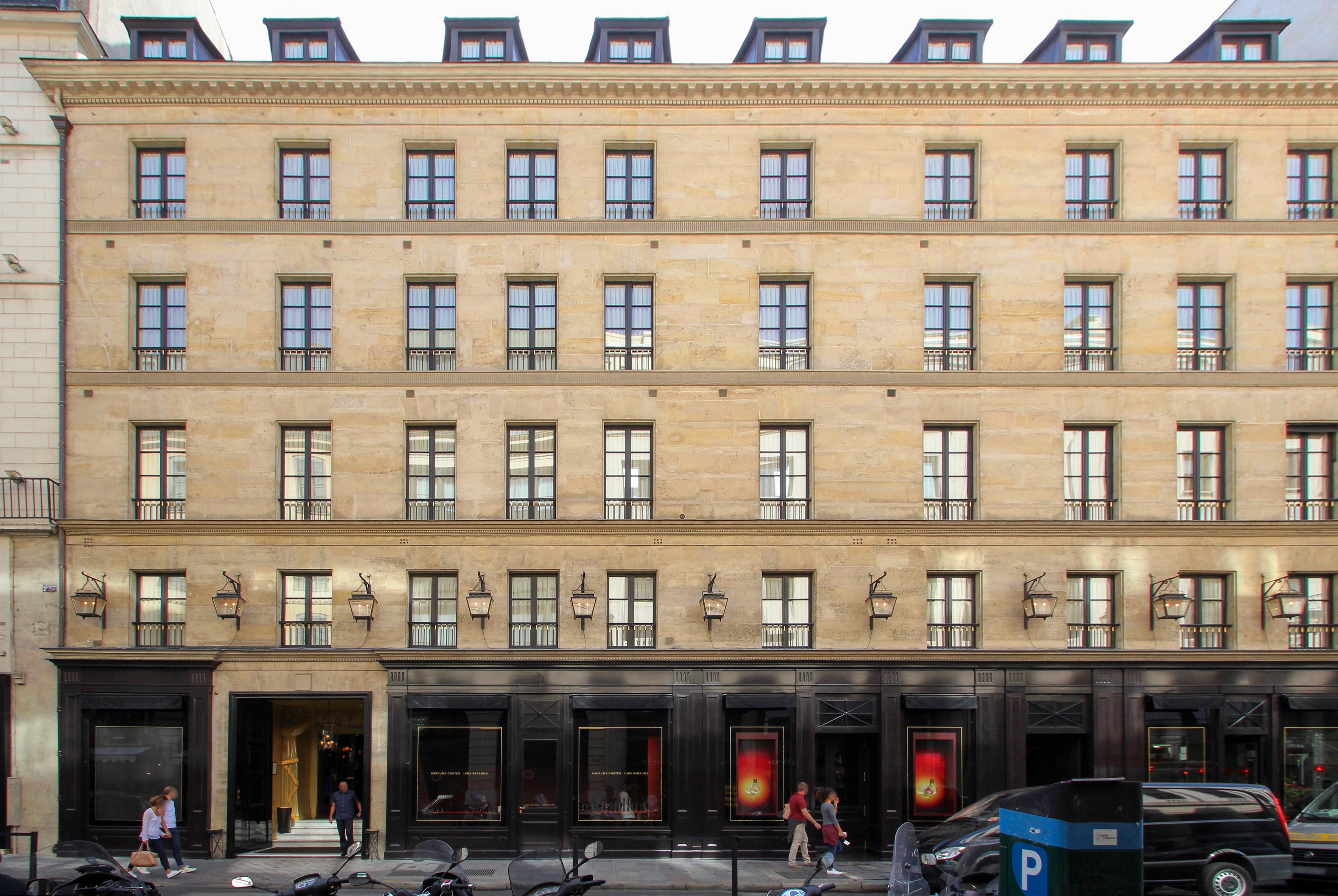 Ancien Hôtel de France et de Choiseul, aujourd’hui Hôtel Costes, 239, 241 Saint-Honoré street in Paris